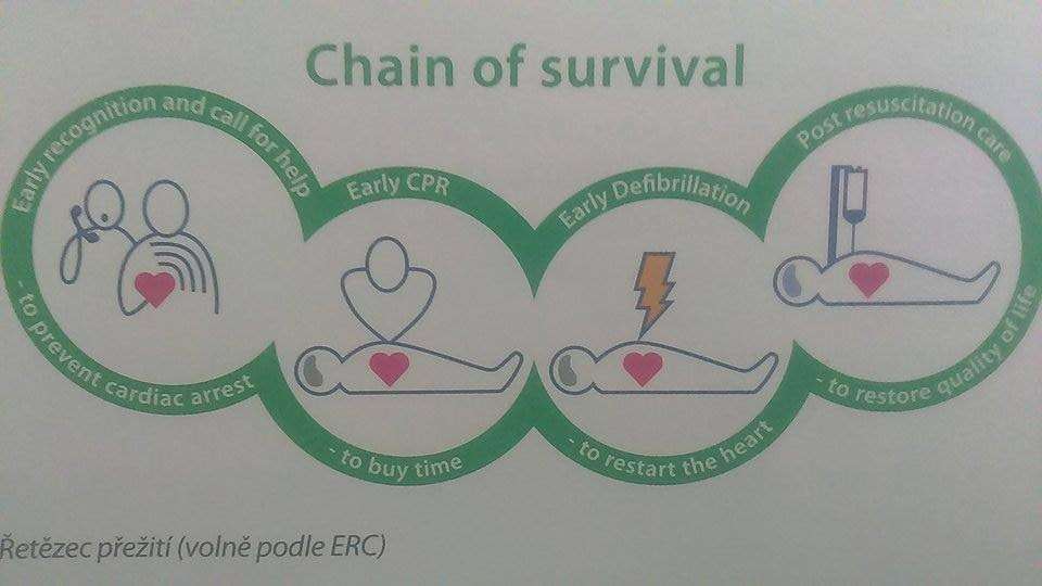 Chain of survival